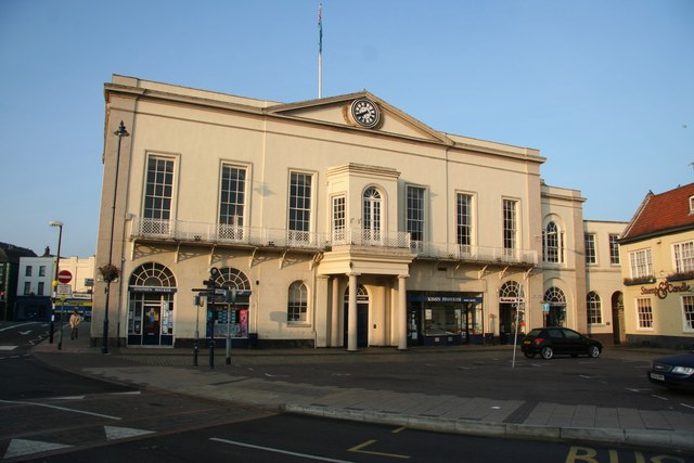 Assembly Rooms. Grade II* listed Regency building by Jeptha Pacey in 1822.